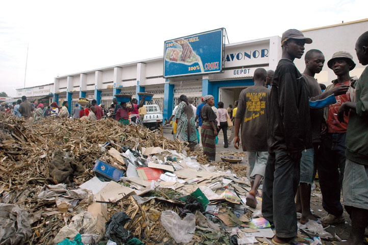 Photo of the exterior of the main market in Bujumbura, Burundi.